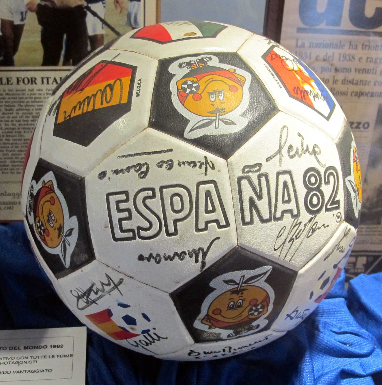 Collections of the Museo del Calcio (Florence)